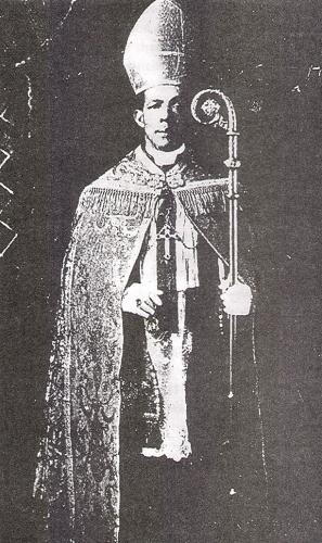 George Alexander McGuire (28 March 1866 – 10 November 1934), founder of the African Orthodox Church (AOC) in 1921 and its first Primate (1921-1934).